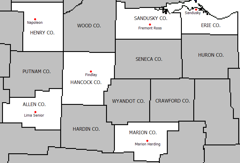 County outlines created by the US Census. Modified by myself to show the school locations and county names.